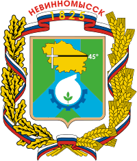 Nevinnomysk (Stavropol kray), coat of arms